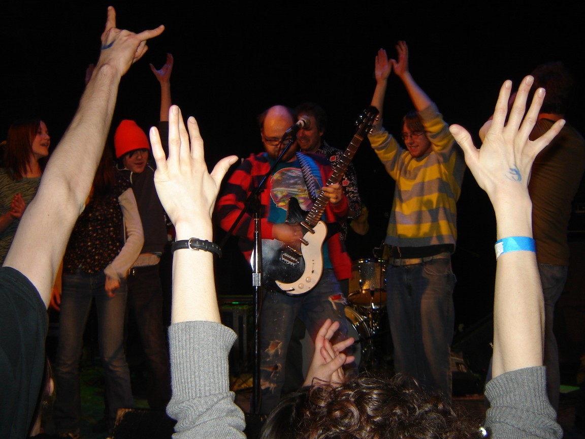 Power pop group The Apples in Stereo perform at The Blue Note in Colombia, Missouri in March 2007.